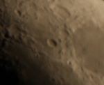 Macrobius at center, on the moon near the lunar terminator as viewed from Earth. Mare Crisium at right, Mare Tranquilitatis at lower left.